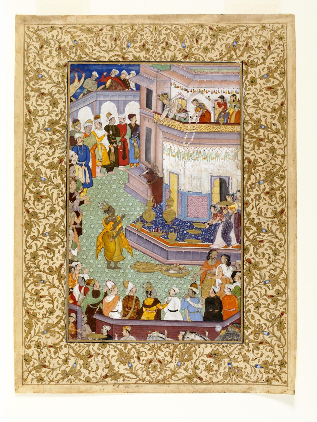 Victoria and Albert museum